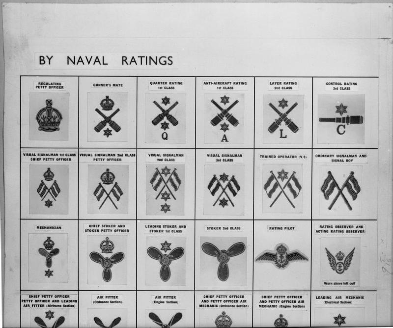 The Royal Navy during the Second World War A poster showing some badges worn by naval ratings.